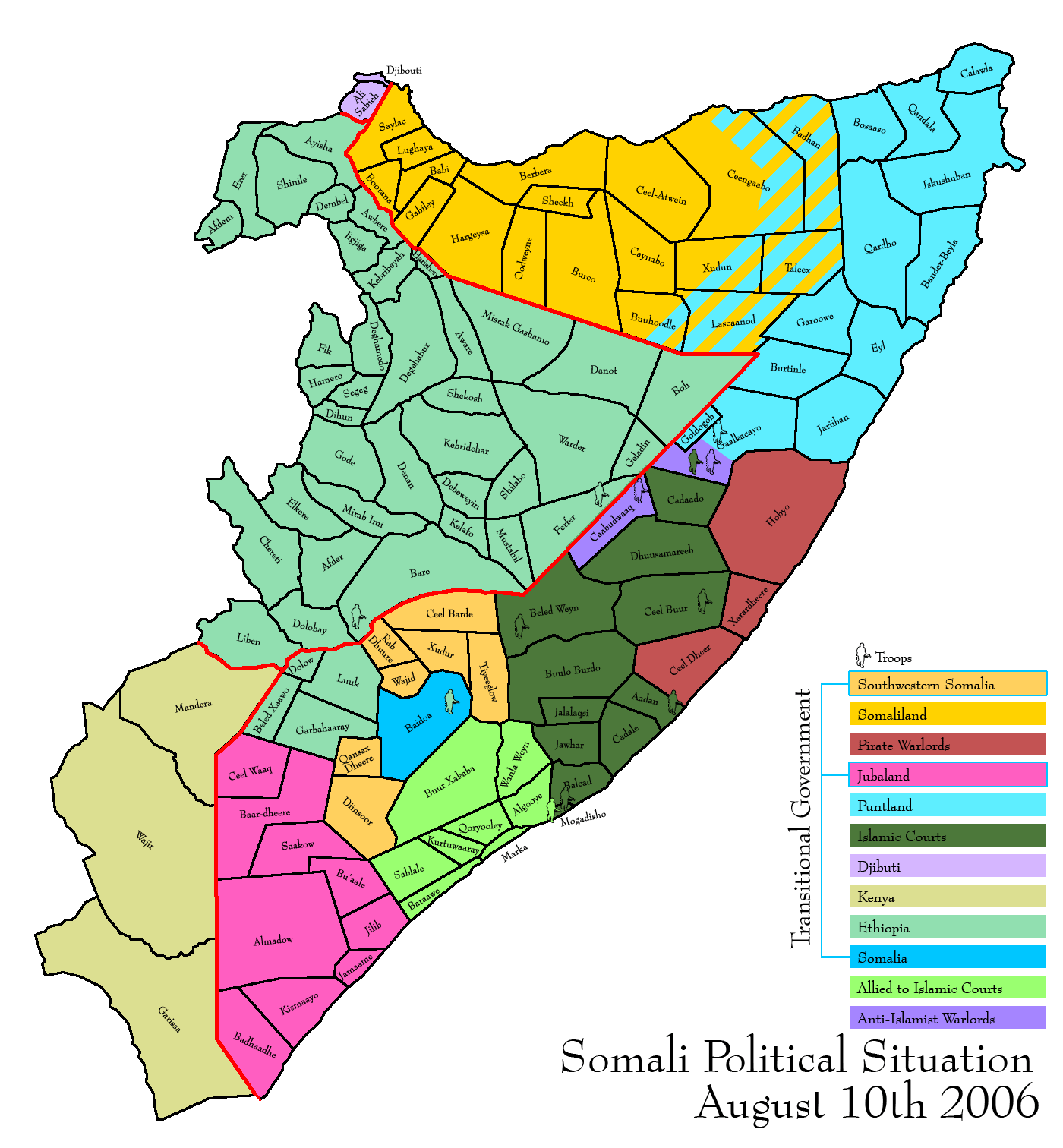 Somali political situation as of August 10, 2006.